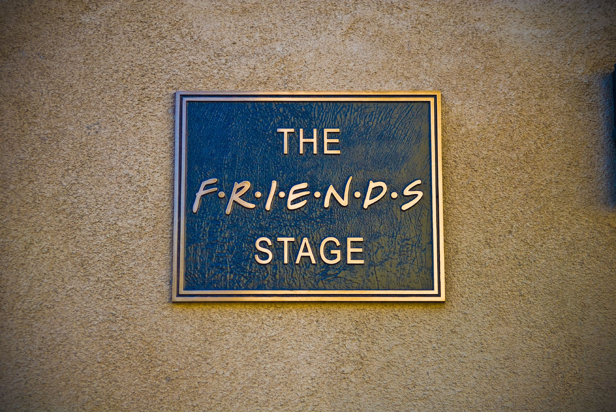 "The Friends Stage" plaque, outside Stage 24 at Warner Bros. Studios in Burbank, California.